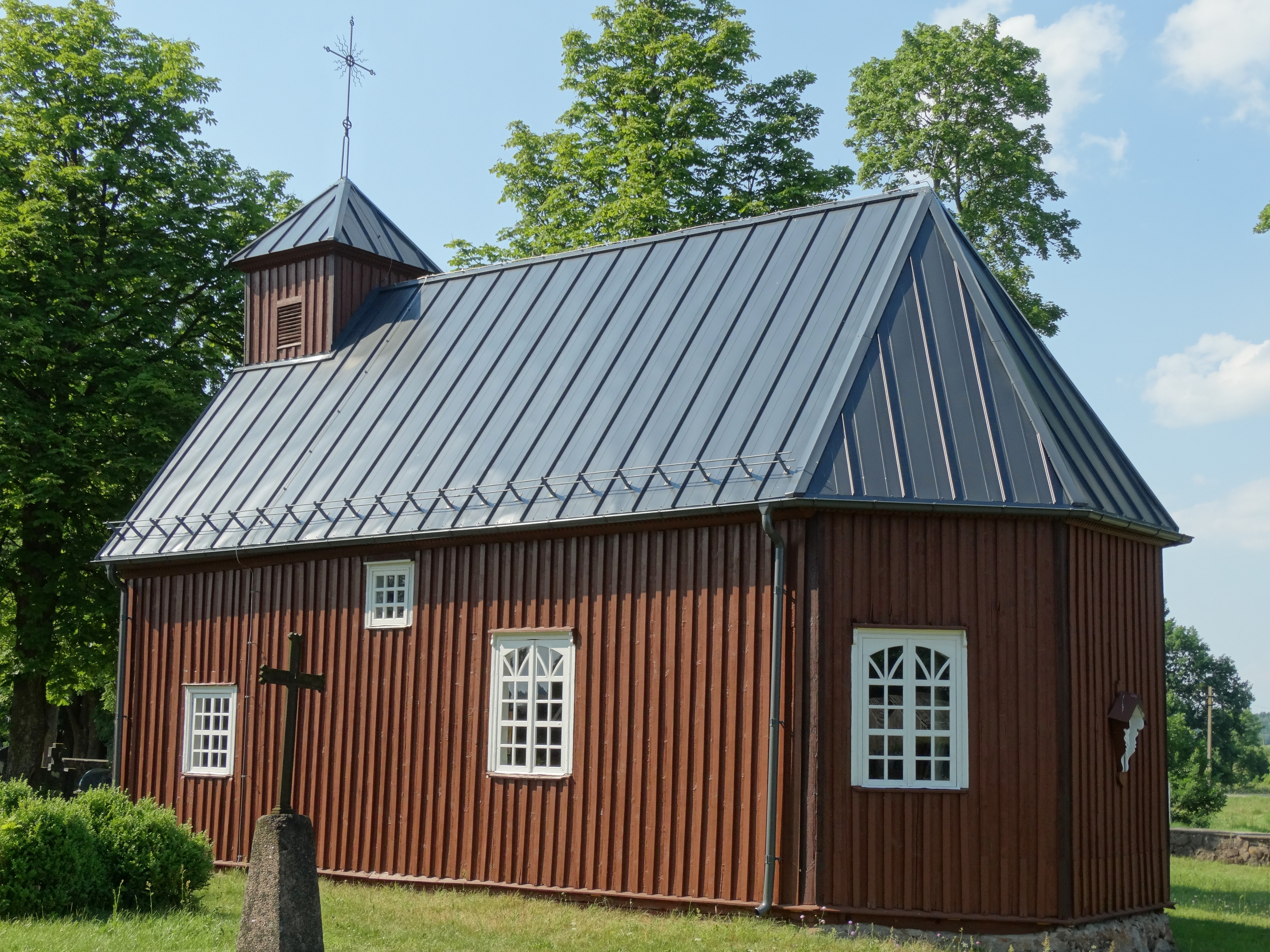 Roman Catholic Church, Mitkaičiai, Telšiai District, Lithuania